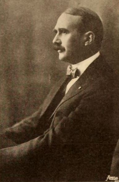 Theater owner and film producer Messmore Kendall (1872 – 1959), who also ran for elected office in New York, on page 45 of the August 28, 1920 Exhibitors Herald.